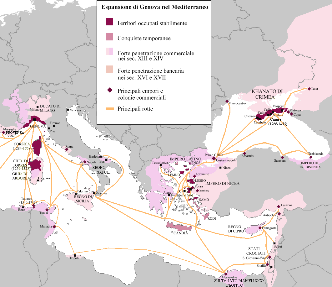 Republic of Genoa